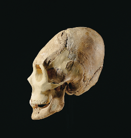 Na vzhodnogotskem pokopališču v današnjih Dravljah v Ljubljani je bilo odkritih nekaj podolgovato preoblikovanih lobanj, pogostih med nomadskimi ljudstvi tega časa. Preoblikovanje je bilo bodisi namerno, za doseganje estetskega vzora, ali nenamerno, npr. posledica povezovanja dojenčkov.